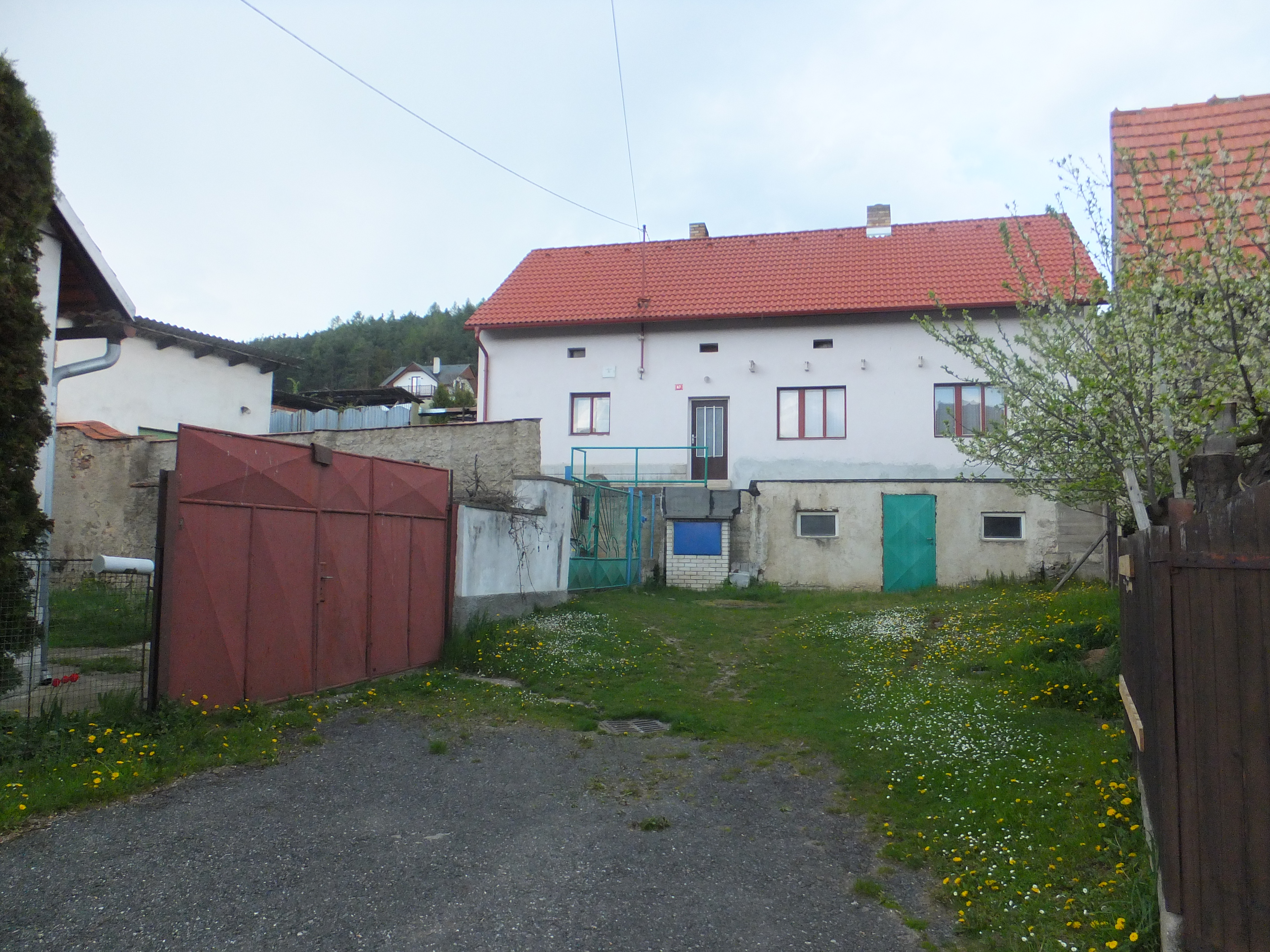 The former synagogue in Čelina (rebuilt to the living house after the fire in 1901)